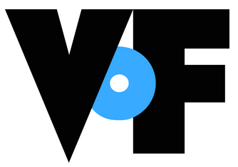 Föreningen Vetenskap och Folkbildning (VoF) logo.